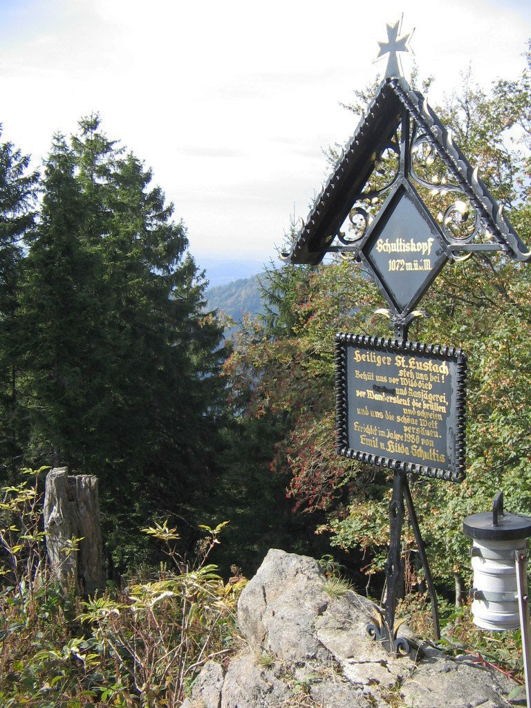 Schultiskreuz on the top of Schultiskopf, Black Forest, Germany. Upper rhine plain in the background